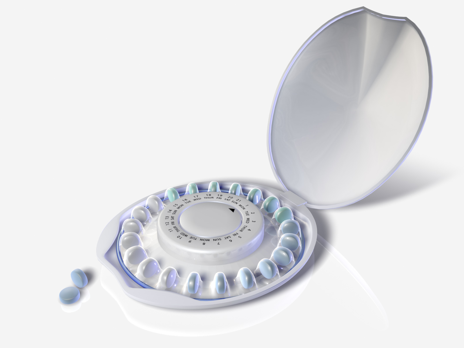 Birth Control Pills .Animation in the reference.[1]